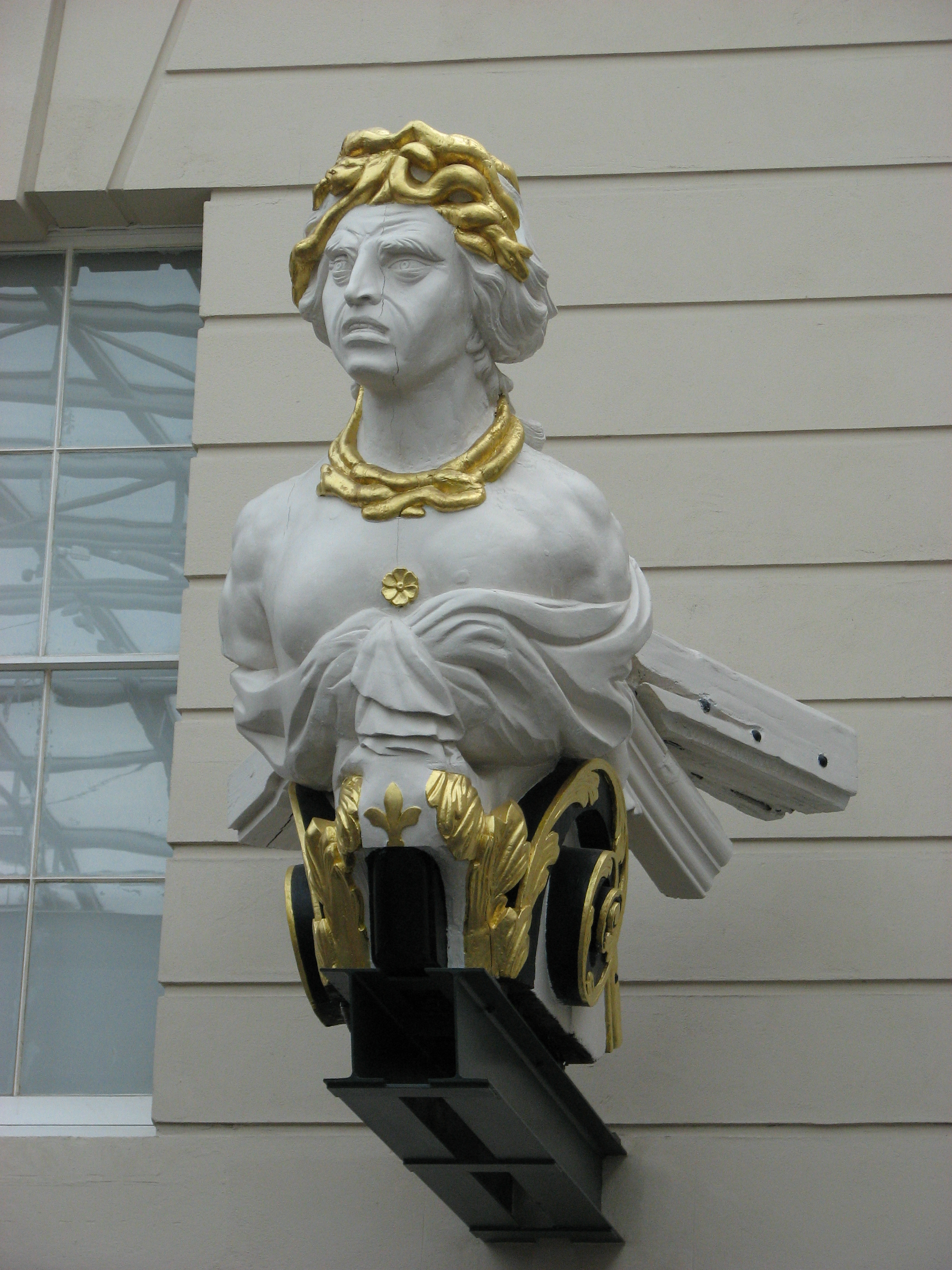 HMS Implacable, Greenwich Maritime Museum